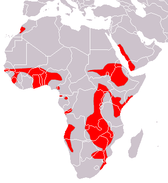 Sundevall's Roundleaf Bat (Hipposideros caffer) range